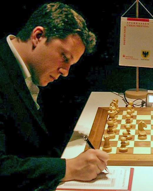 Arkadij Naiditsch, Dortmunder Schachtage 2009, Photographer Gerhard Hund.